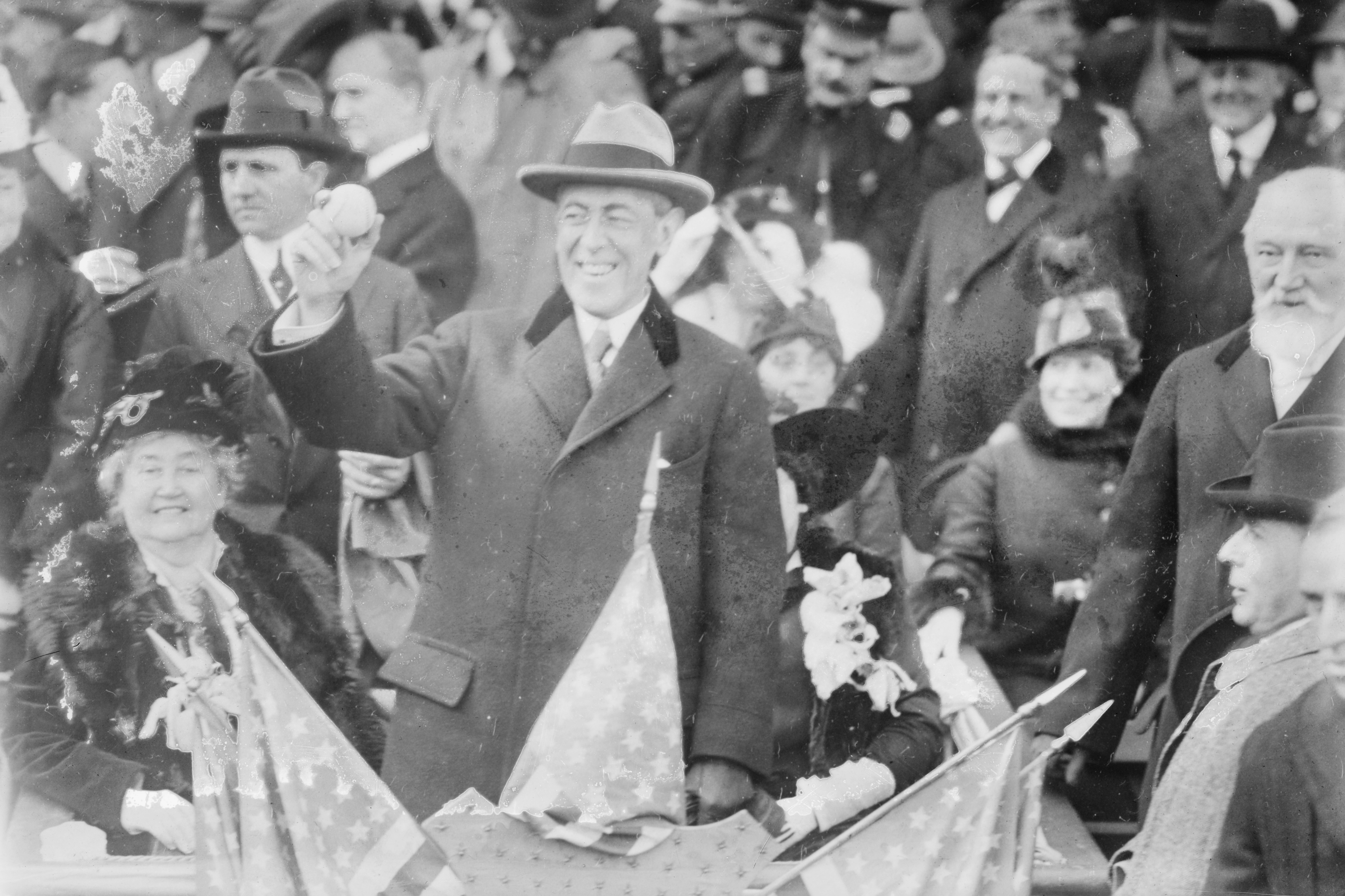 President Woodrow Wilson throws out the first pitch at the 1915 World Series. To his left is his mother in-law, Sallie White Bolling (1843-1925)} and to his right is mayor Rudolph Blankenburg